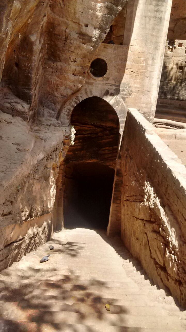 Its located in the Uparkot,Junagadh,Gujarat and named on ruler King Navaghan.